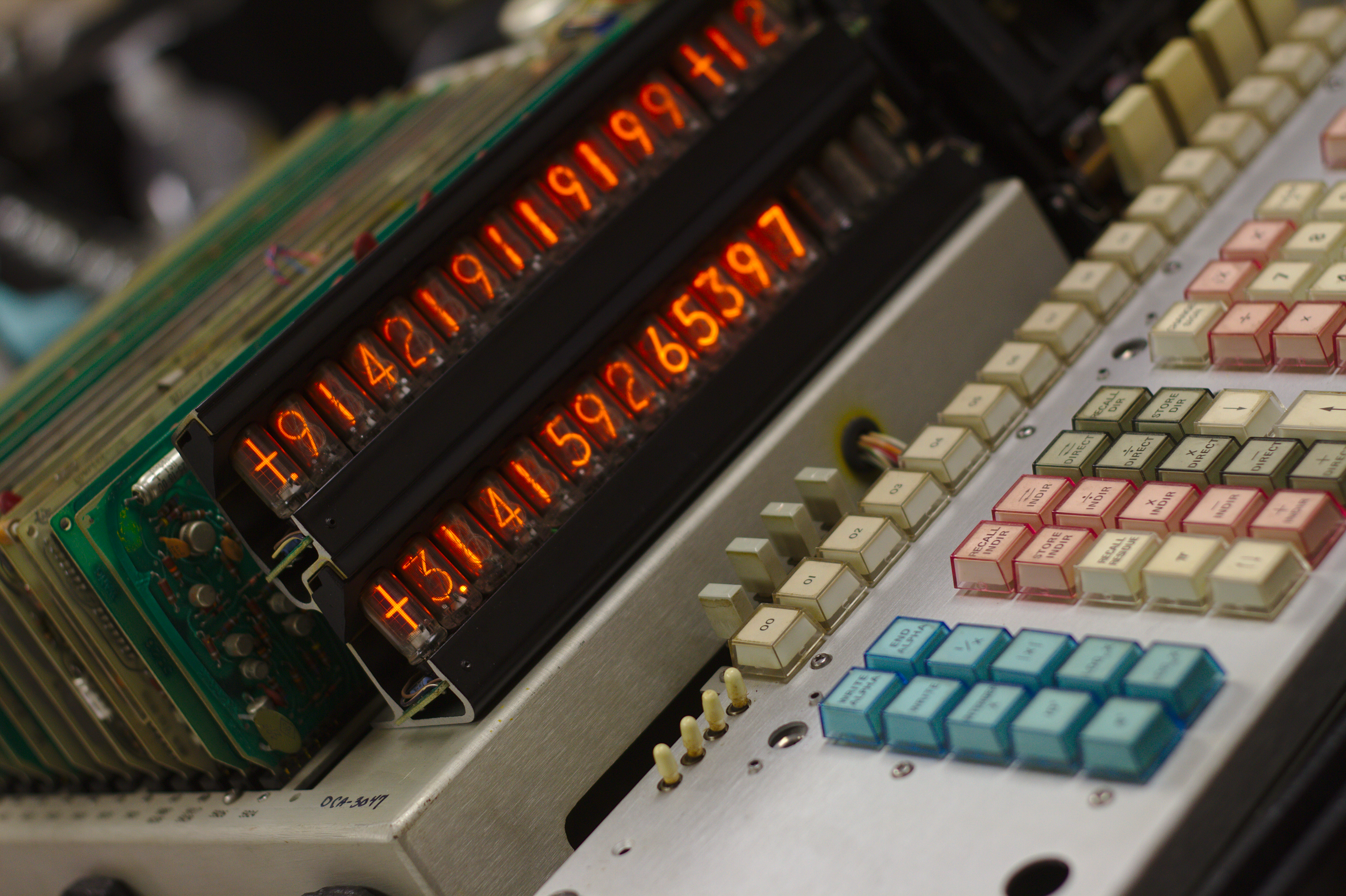 The Wang Laboratories Inc. Wang 700 Advanced Programmable Calculator , with its cover removed.